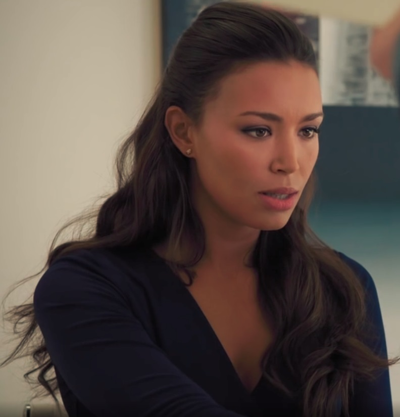 American actress Ilfenesh Hadera in a frame from the Showtime cable TV series Billions